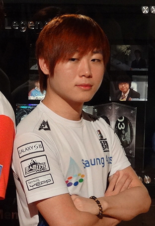 Heo Yeong Mooon July 30, 2012